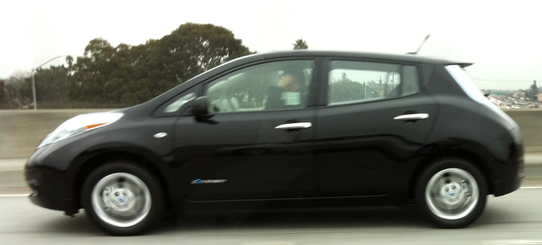 First Nissan Leaf delivered in the US on the road, South of San Francisco.